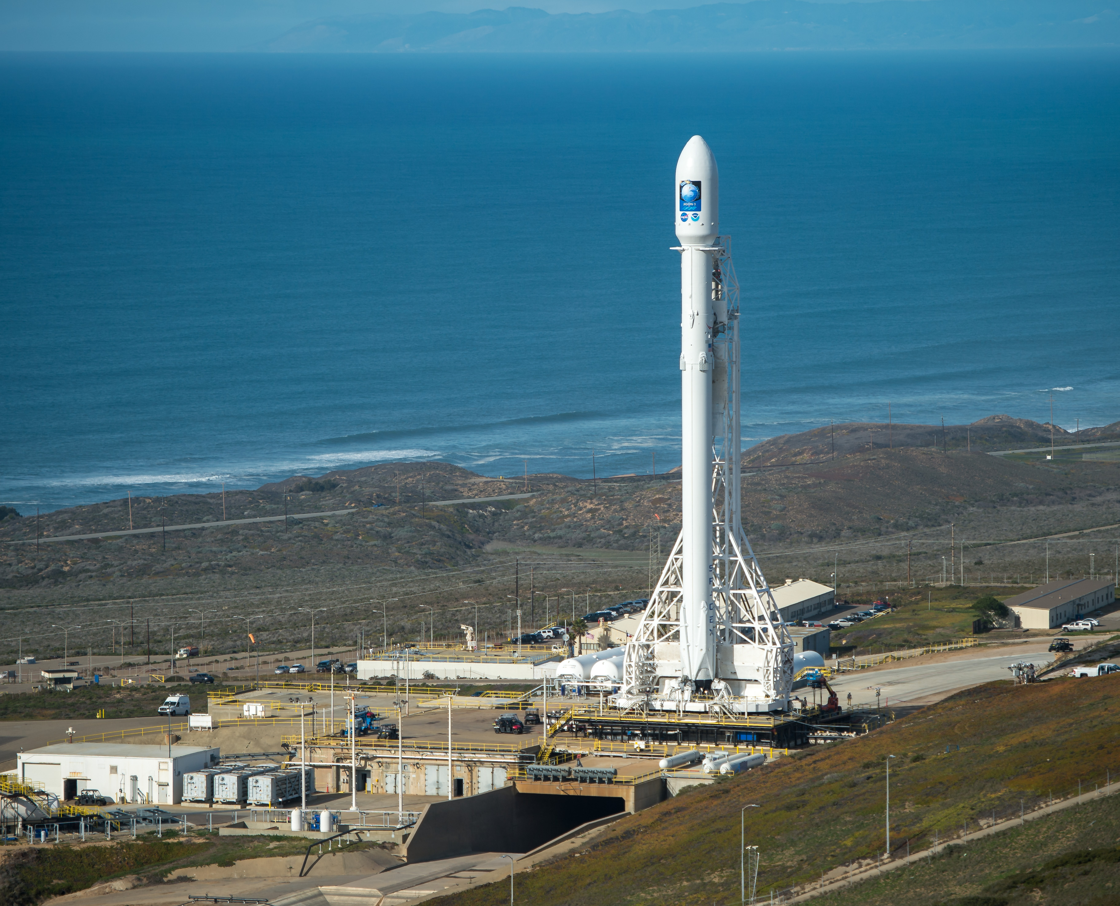 The SpaceX Falcon 9 rocket is seen at Vandenberg Air Force Base Space Launch Complex 4 East with the Jason-3 spacecraft onboard, Saturday, Jan. 16, 2016, in California. Jason-3, an international mission led by the National Oceanic and Atmospheric Administration (NOAA), will help continue U.S.-European satellite measurements of global ocean height changes. Photo Credit: (NASA/Bill Ingalls)